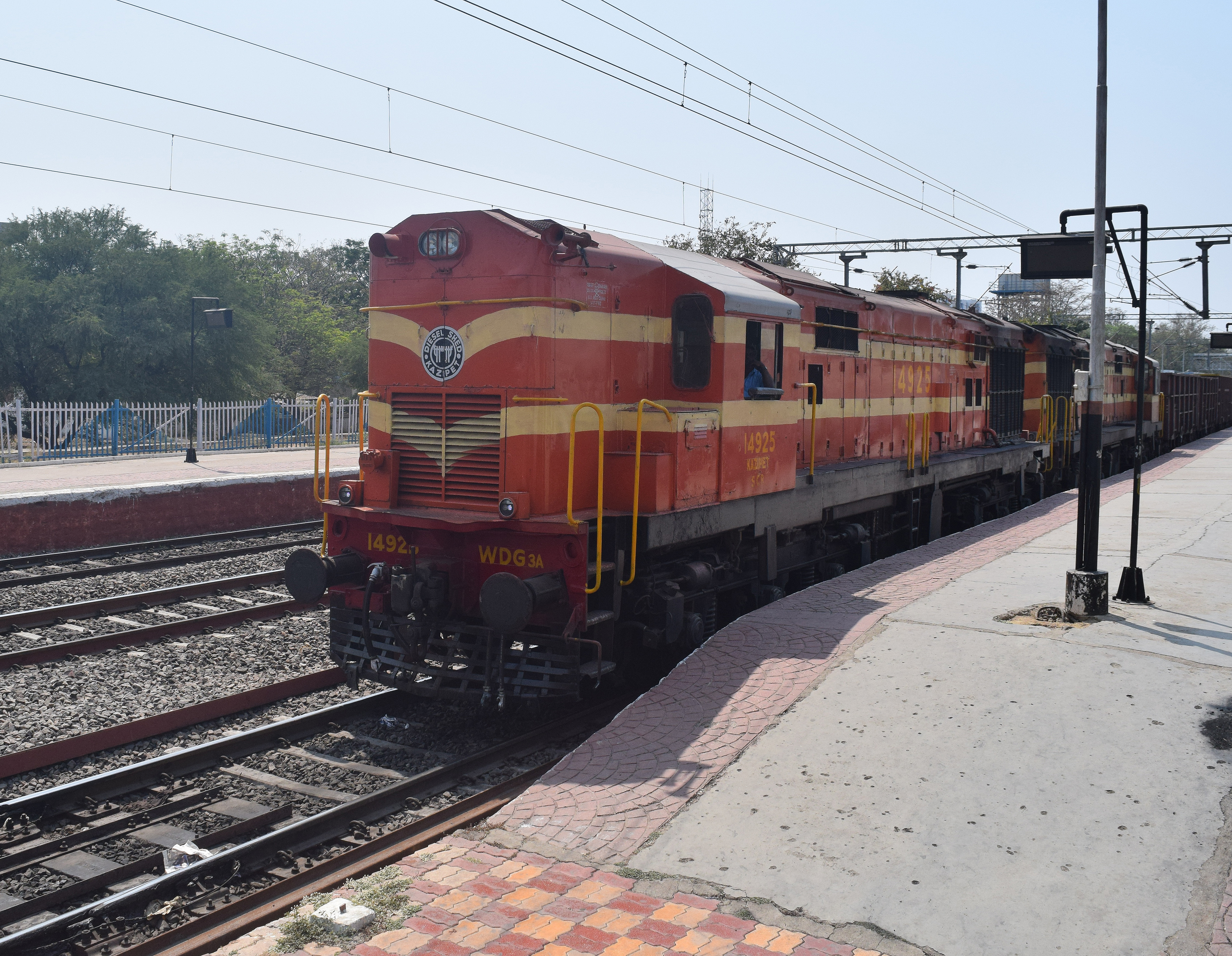 A WDG3A of Kazipet Junction at Lingampally railway station